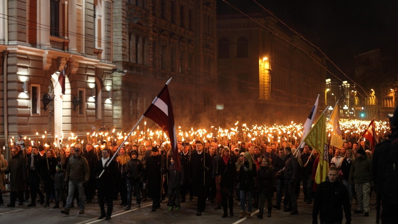 18th November Torchlight procession 2013 in Riga, LatviaLatviešu: 2013. gada 18. novembra lāpu gājiens